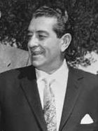 Former Mexican president Adolfo López Mateos while visiting Lyndon B. Johnson's ranch (cropped).